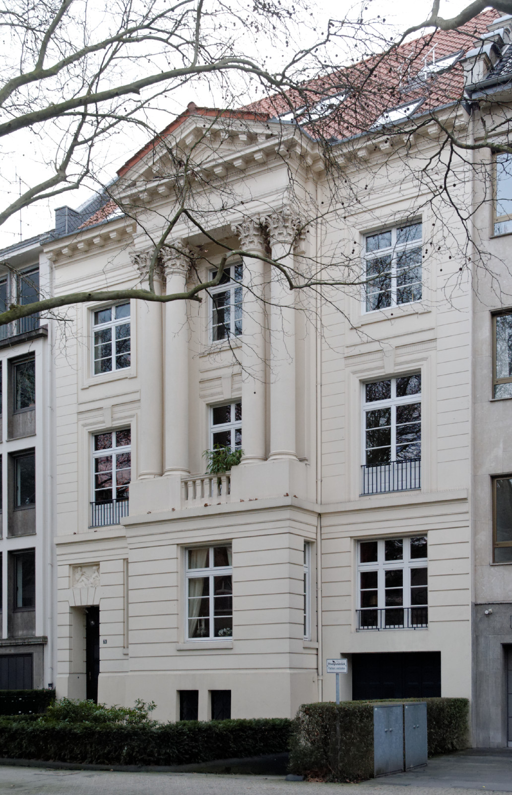 House Achenbachstraße 24 in Düsseldorf-Düsseltal, Germany; Architect Richard Hultsch for Gustav Rutz